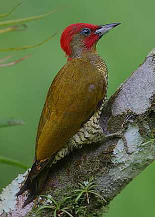 An adult male. Image taken on the slope of the Arenal Volcano, Costa Rica.